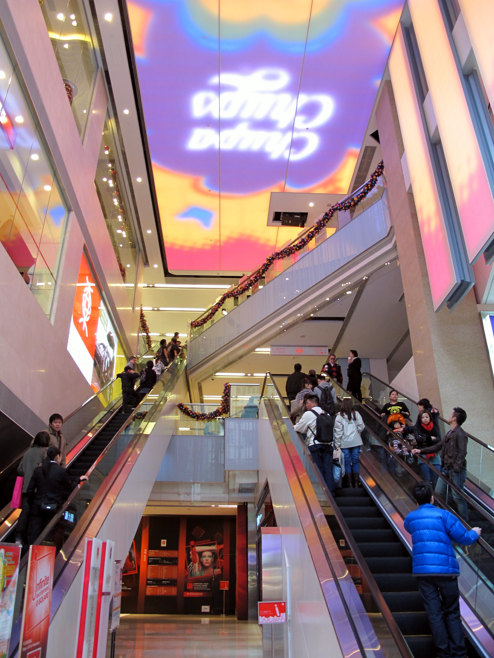 iSQUARE Peking Road Enterance iSQUARE於北京道主入口